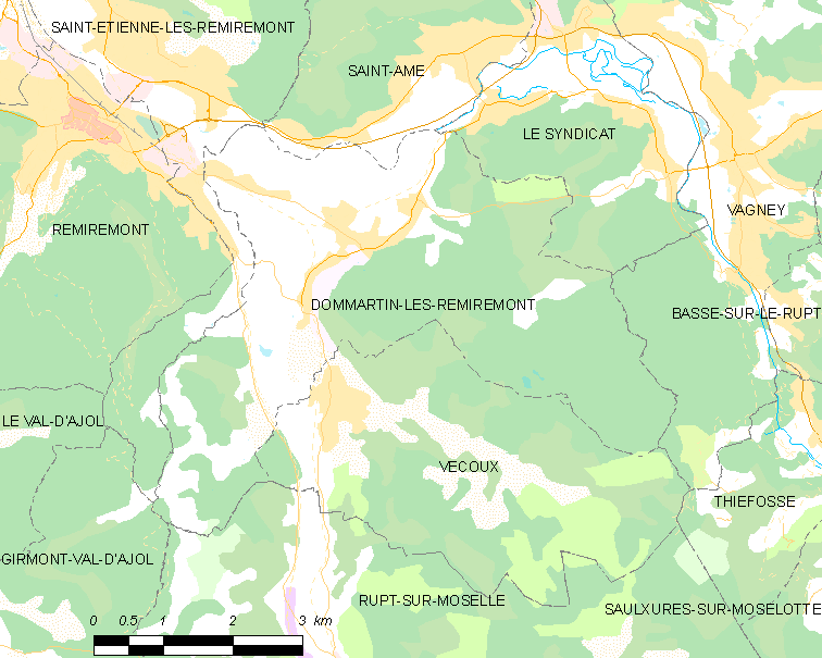 Map of French municipality Dommartin-lès-Remiremont